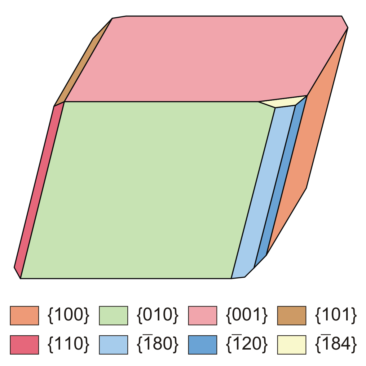 Drawing of a chudobaite crystal; reference: H. Strunz (1960), Neues Jahrbuch Mineralogie, Monatshefte Vol. 1960, page 3